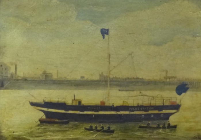 HMS Royalist in use as a police station - a painting in the Thames River Police Museum.